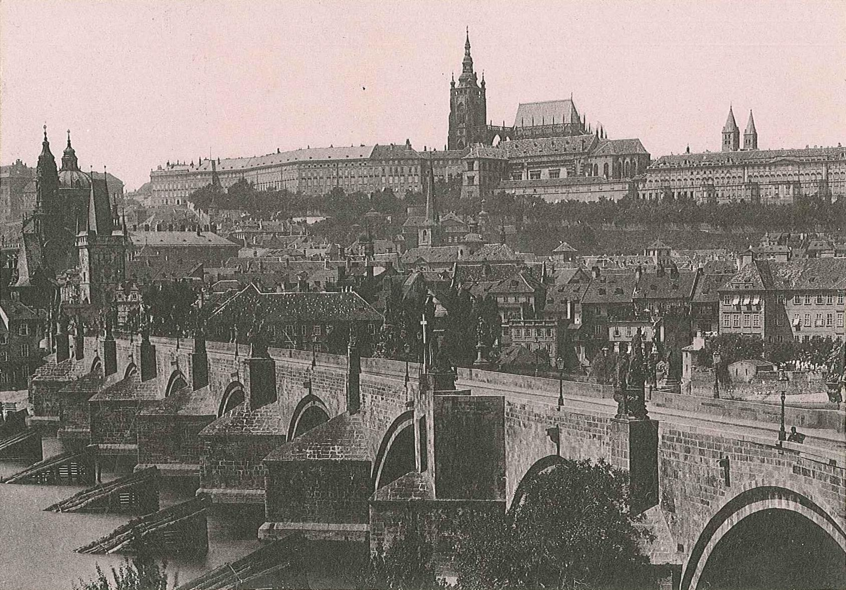 The Charles Bridge at Prague, ca. 1880